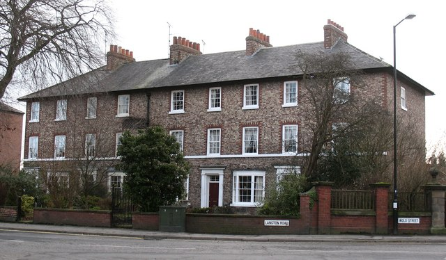 Victorian terrace, Langton Road Nicely proportioned terrace of red brick houses dating from the 1850's on Langton Road. This part of the town has a number of large Victorian properties built originally for the middle classes of Norton and Malton.